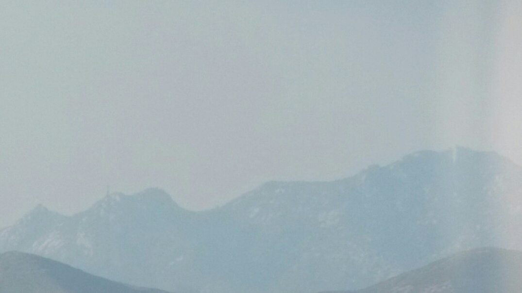 Songaksan(Mt), Kaesong, North Korea From Paju, South Korea